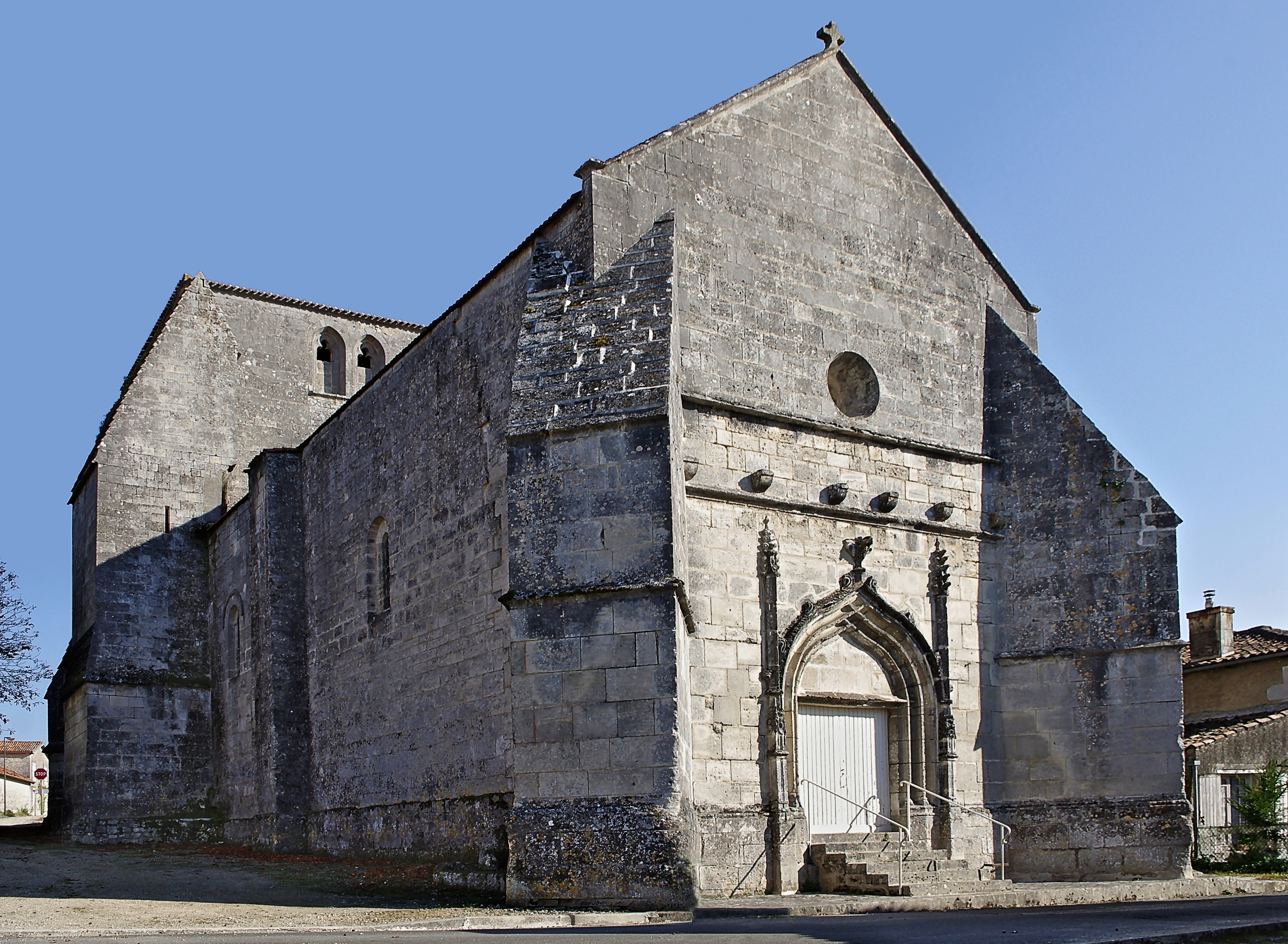 View of Saint-Saturnin church (12th-14th and 16th centuries) of Malaville, Charente, France. .